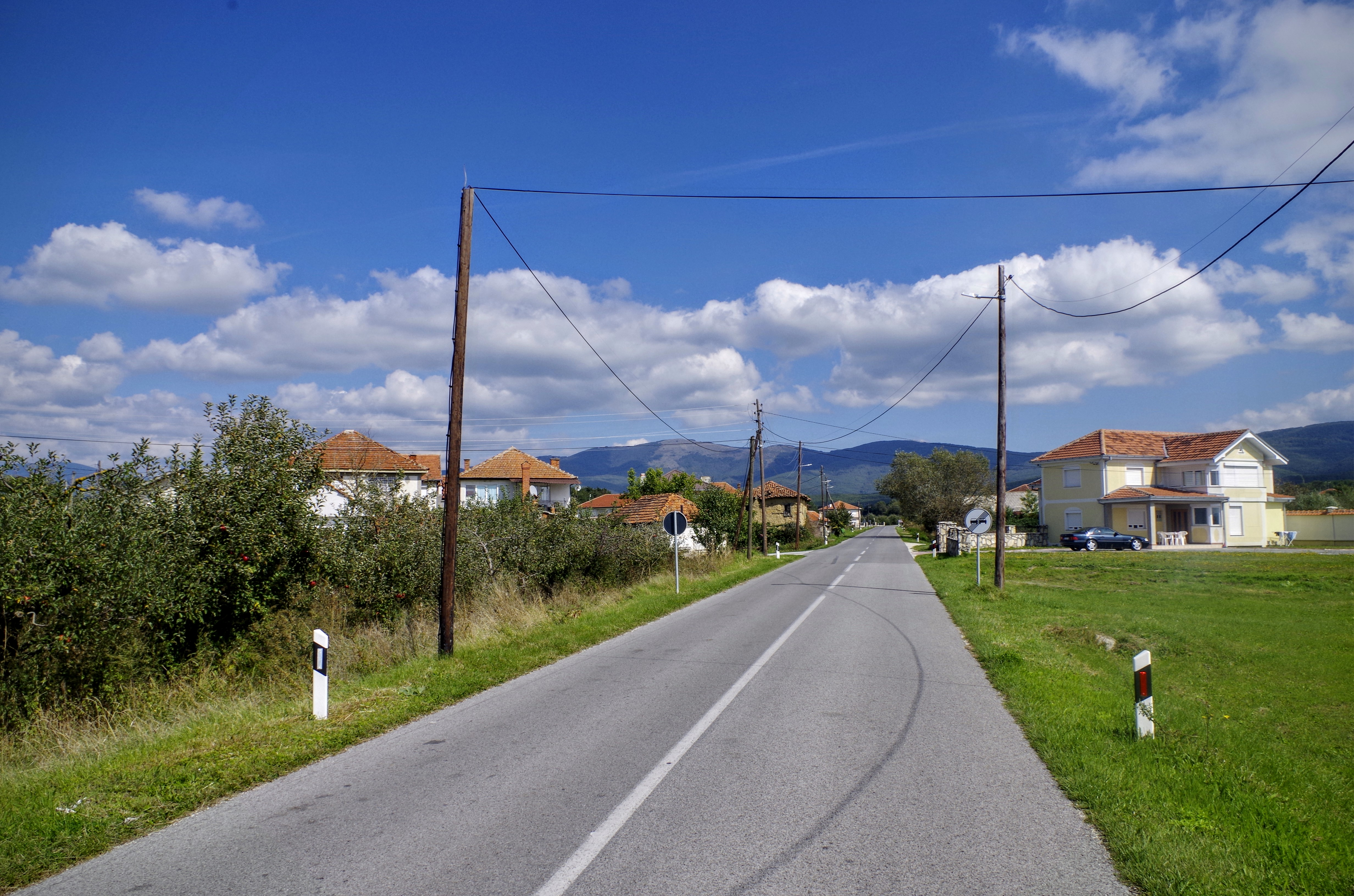 View of the village Kozjak